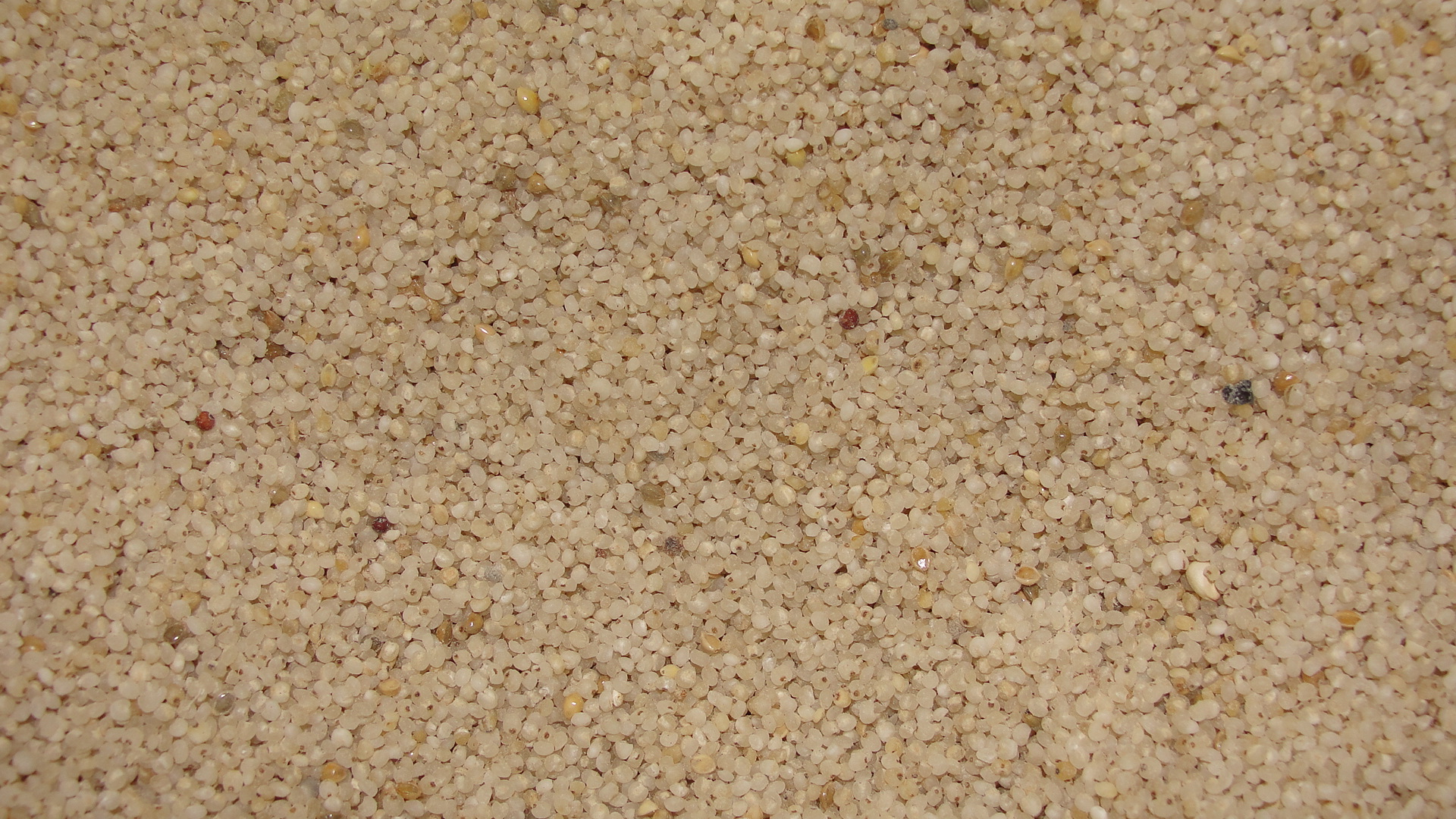 A closeup of horse tail millet